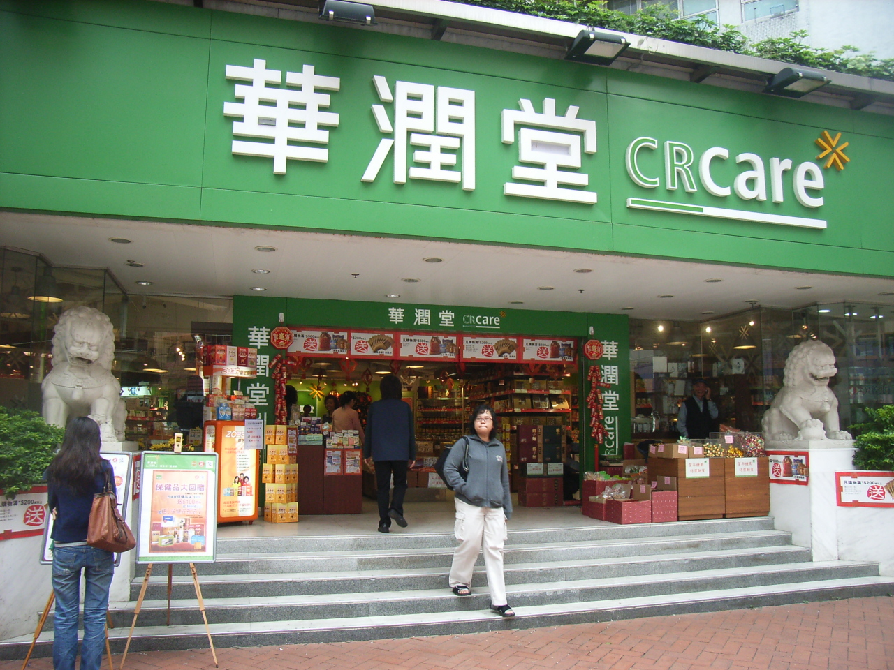 華潤創業 的子公司, 華潤堂在zh:九龍zh:紅磡zh:黃埔花園的一間分店, Hung Hom, Kowloon, Hong Kong. Photo created by User:HungBEER.